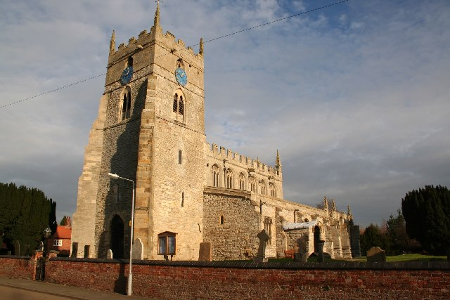 All Saints' church, Sutton on Trent. A wonderful church with a great historic and architectural treasure - the Mering Chapel